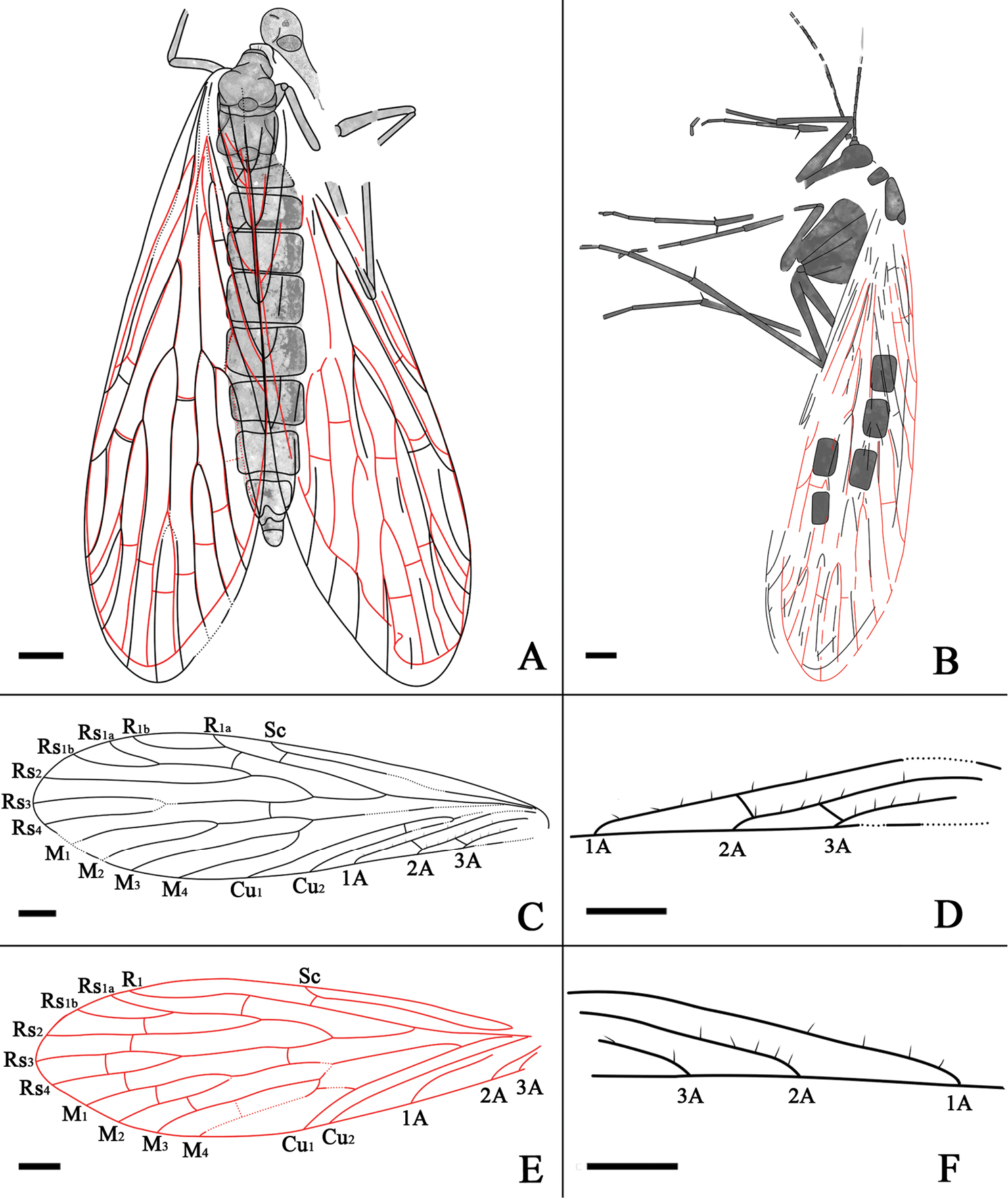 Jurassipanorpa impunctata gen. et sp. n. line drawings. A holotype B paratype C left forewing of the holotype D anal part of left forewing highlighting setae of the holotype E left hind wing of the holotype, crossvein between M3 and M4 is based on the right hind wing F right forewing highlighting setae of the holotype. Scale bars: 1 mm in A–F.